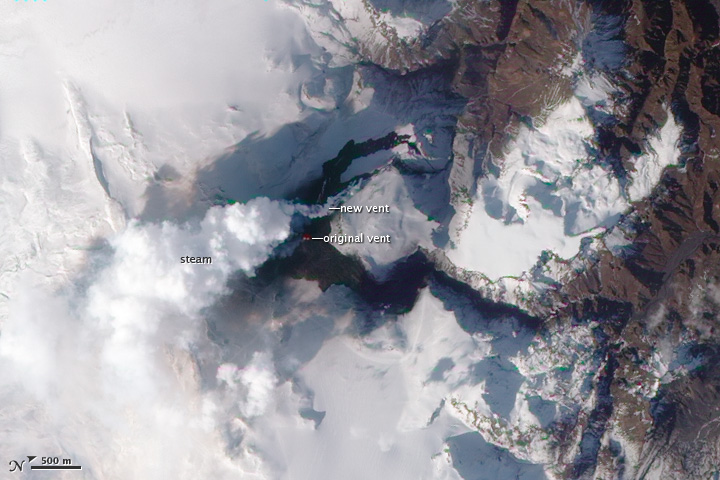 A new volcanic fissure near Eyjafjallajökull in southern Iceland indicates that the eruption at Fimmvörduháls is still going strong. The vent opened on the afternoon of March 31st, to the northwest of the original vent. This natural-color satellite image shows the area of the eruption on April 1. The image was acquired by the Advanced Land Imager (ALI) aboard NASA’s Earth Observing-1 (EO-1) satellite.